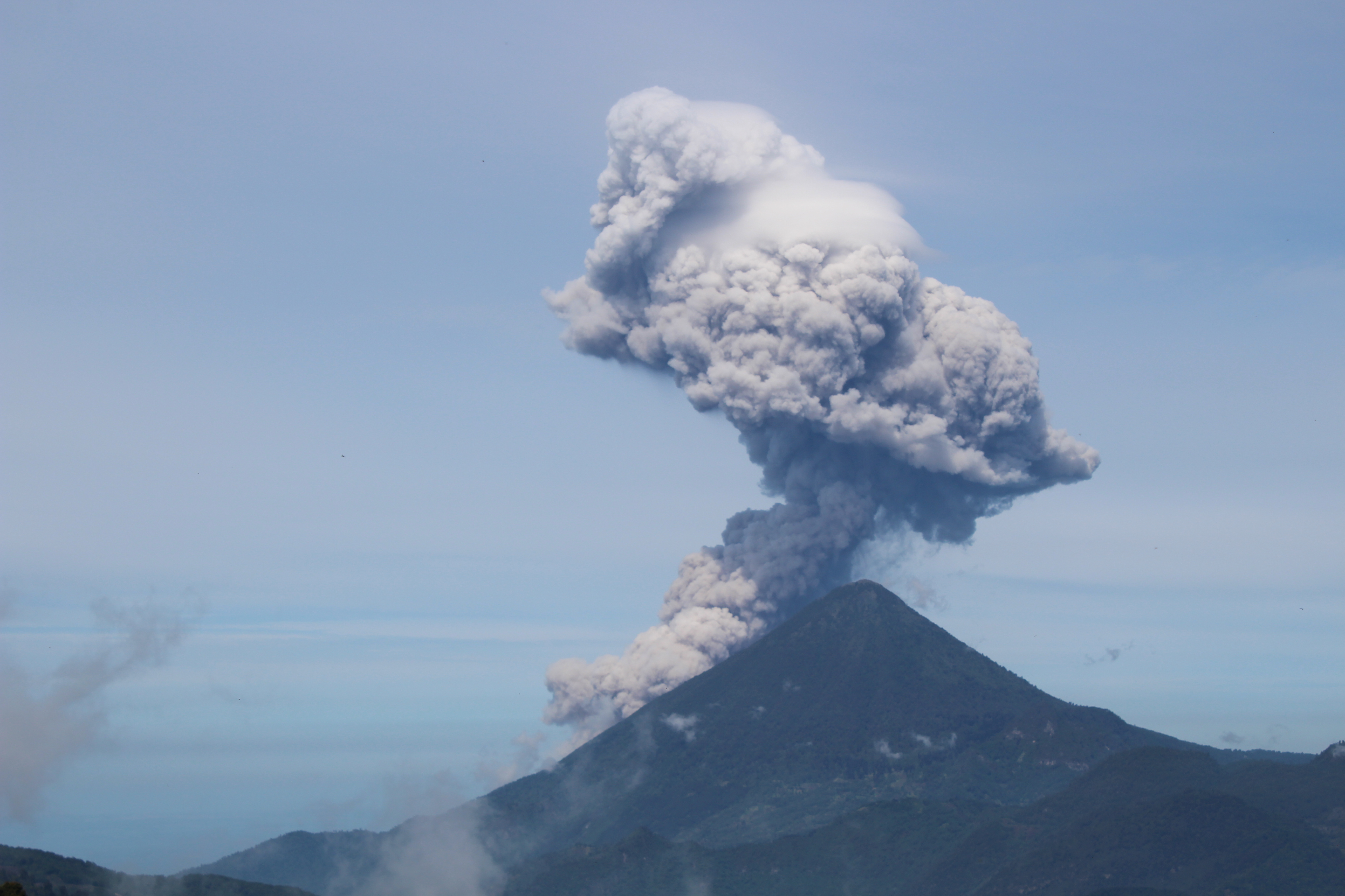 Lava dome eruption of Santiaguito, 19 May 2016 (Quetzaltenango, Guatemala)